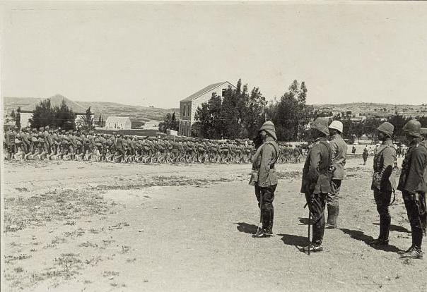 Jamal [Cemal] Pasha II inspecting the Austrian troops entering Jerusalem, 1916.